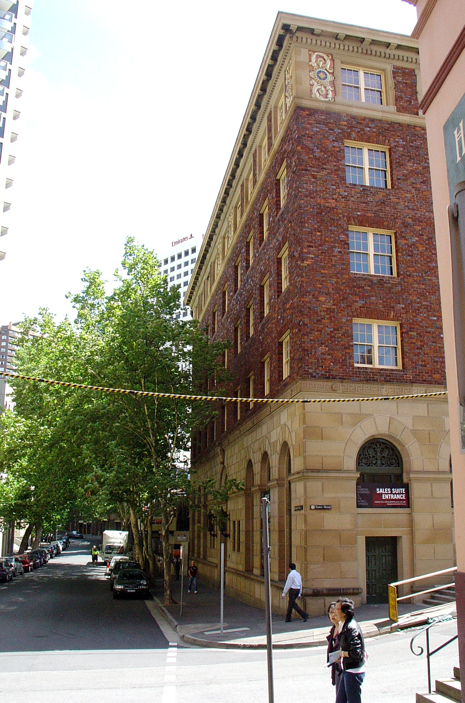 Science House is a 1931 Inter-war Commercial Palazzo building in The Rocks precinct of Sydney, Australia. It was originally designed as a home for a consortium of scientific organisations. As of 2019 it was a campus of New York University. It is located at 157-161 Gloucester Street, at the corner with Essex Street.